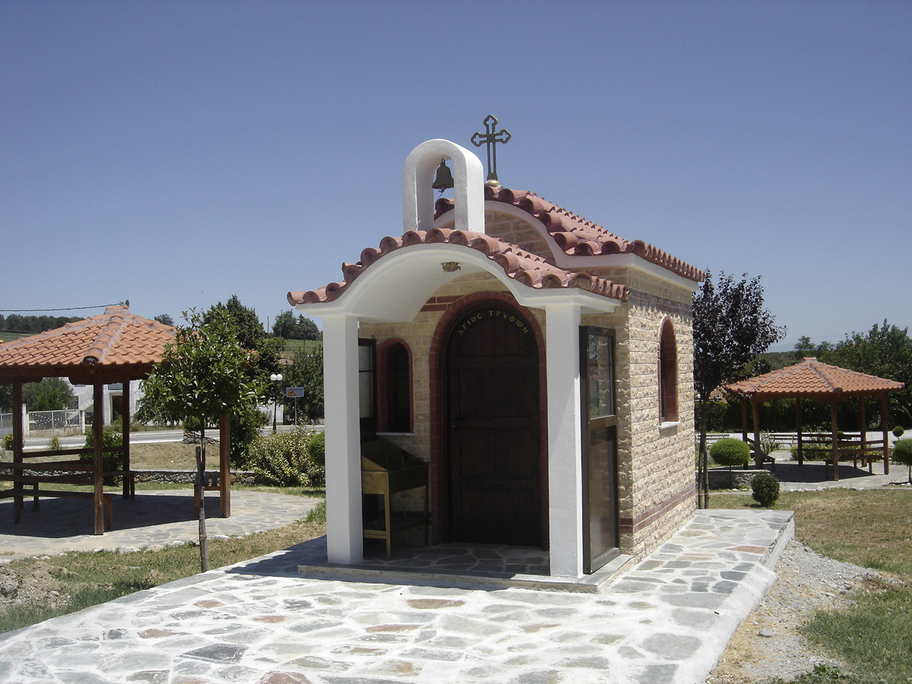 Church of Agios Trifon in Kitros.